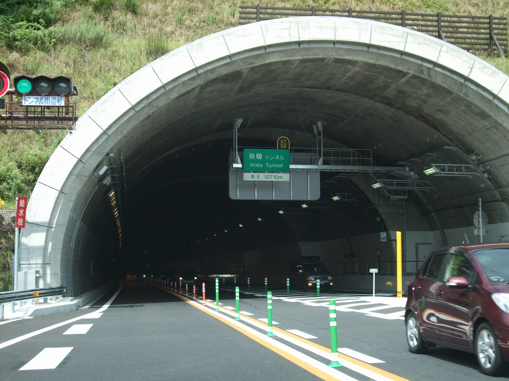 Kawai Portal of Hida Tunnel on the Tokai-Hokuriku Expressway